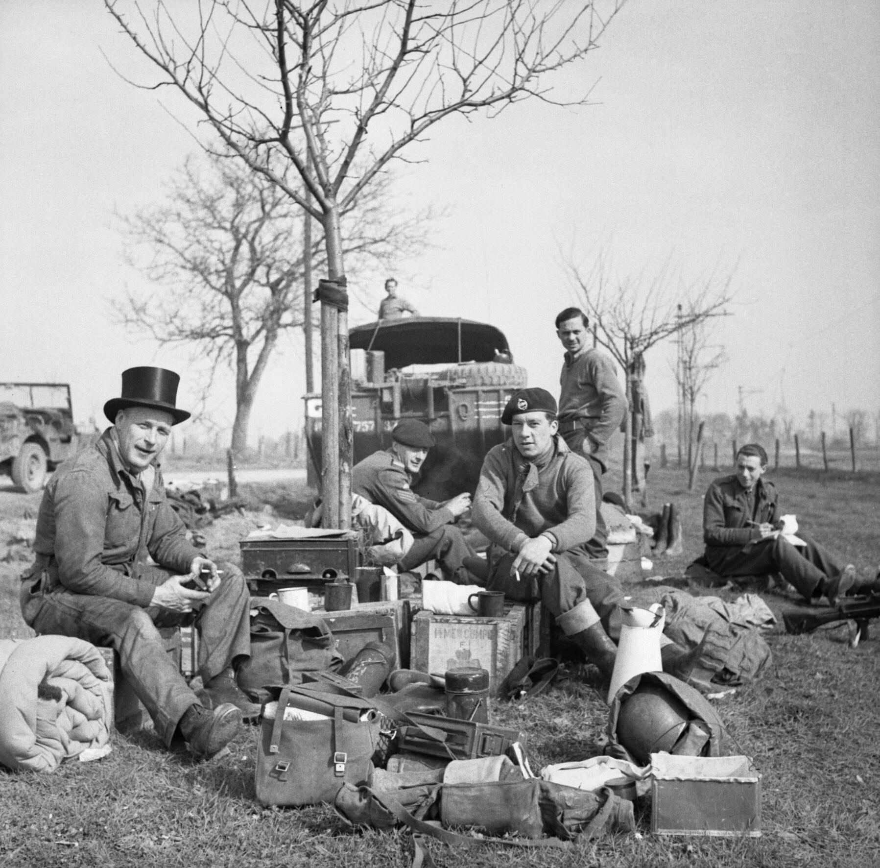 Crews of amphibious DUKW vehicles rest by the roadside east of the Rhine, 25 March 1945. DUKW crews (including one soldier wearing a top hat) rest by the roadside east of the Rhine, 25 March 1945.